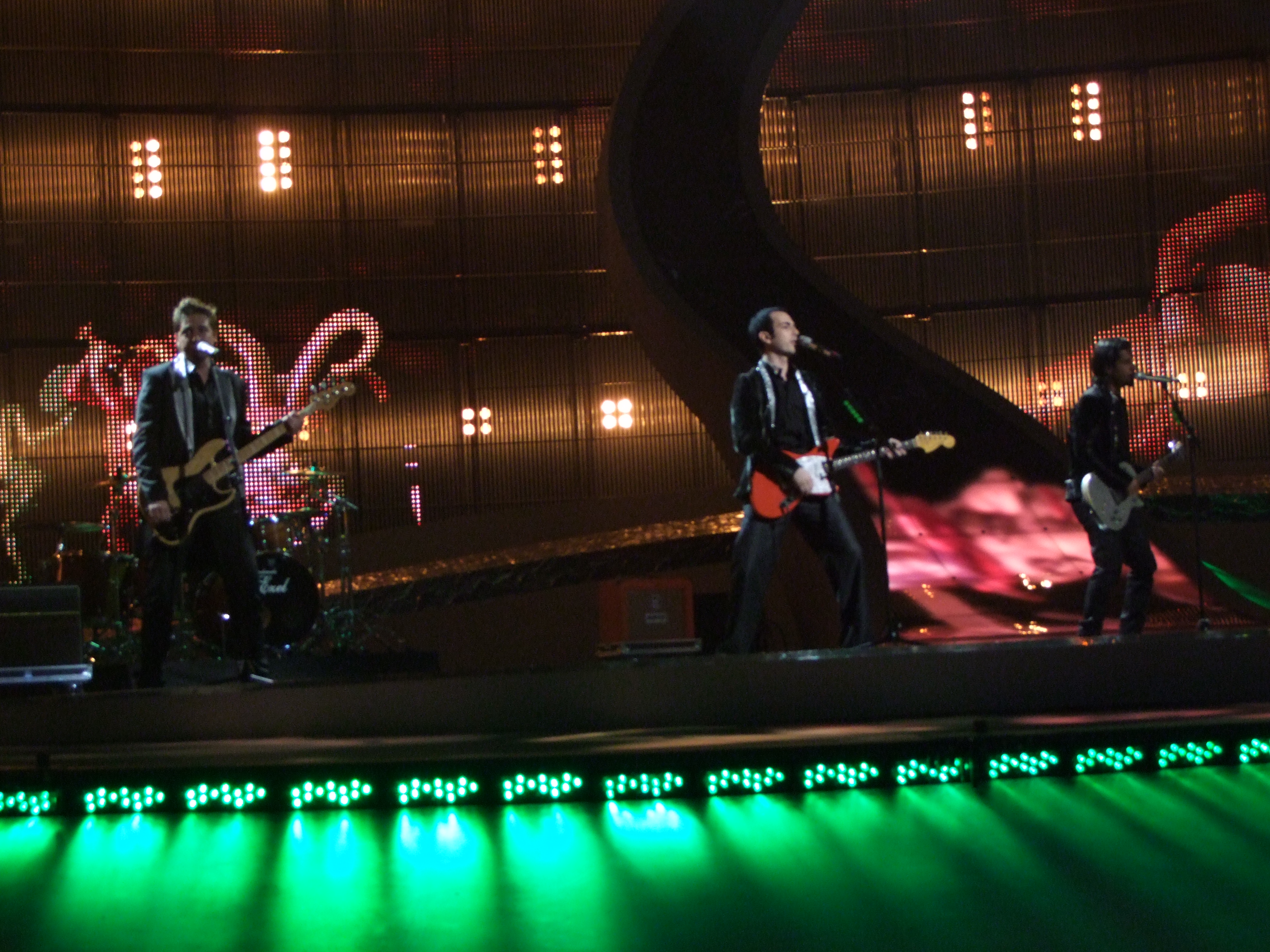 Mor ve Ötesi in the 2nd semi-final at the Eurovision Song Contest in Belgrade, Serbia, May 22, 2008.